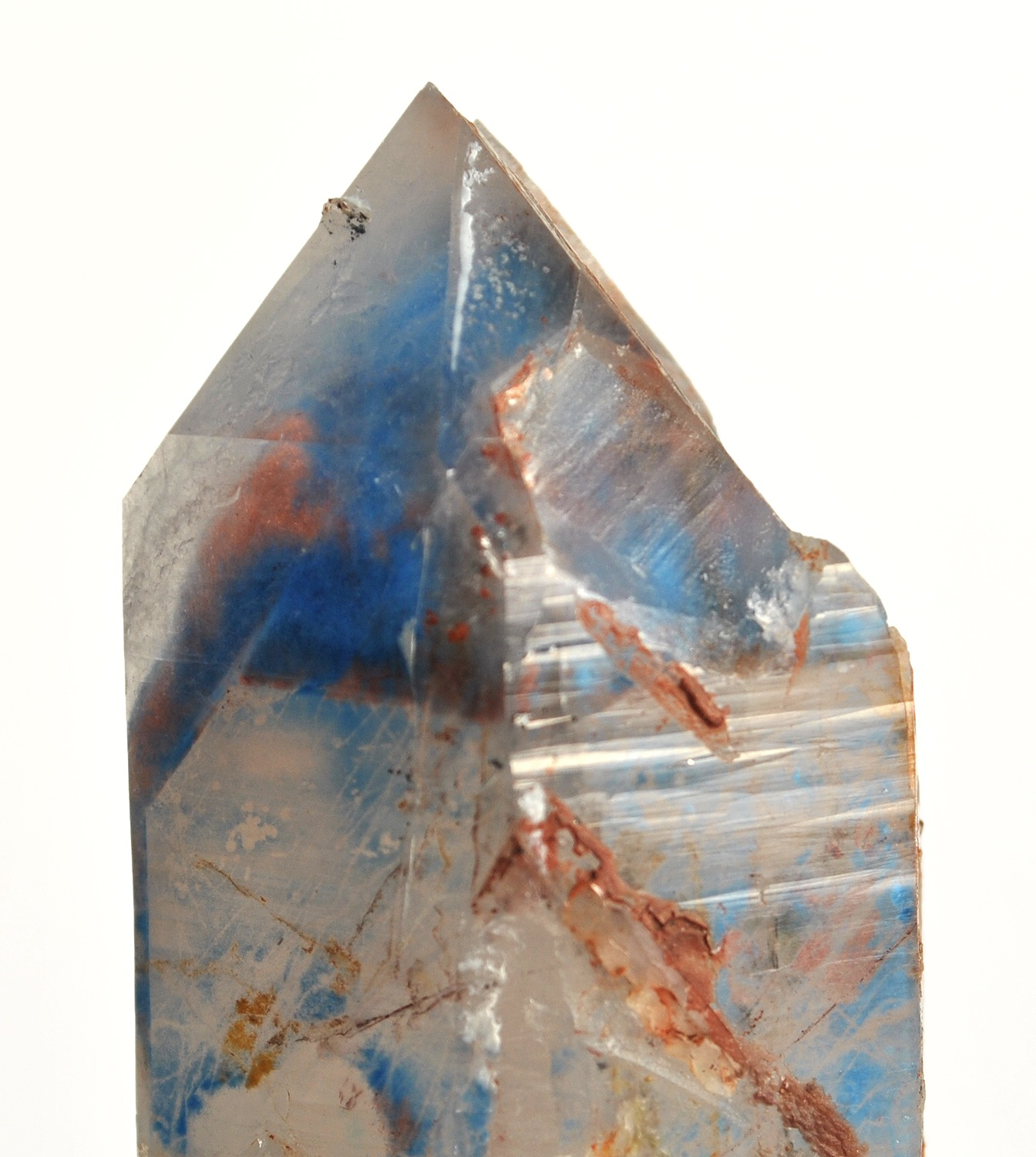 Copper, Papagoite, Quartz Locality: Messina mine, Messina District, Limpopo Province, South Africa (Locality at ) Size: small cabinet, 7.0 x 3.7 x 2.6 cm Papagoite and Copper included in Quartz Usually, papagoite is dispersed in veils, but in this piece it is extremely concentrated in richness and in color saturation, right at the tip! This is a phenomenal crystal with unusually vivid coloration. The termination is sharp and complete, unusually pristine. Note also the slight wisps of copper inside, dispersed in the zone of deep blue papagoite. A classic, unique to this locality, such crystals are highly desirable in this quality. Papagoite is much rarer, here, than the ajoite inclusions. MUCH better in person, this is one of the sharpest such examples that I expect to be able to offer. It is from new finds in late 2009.